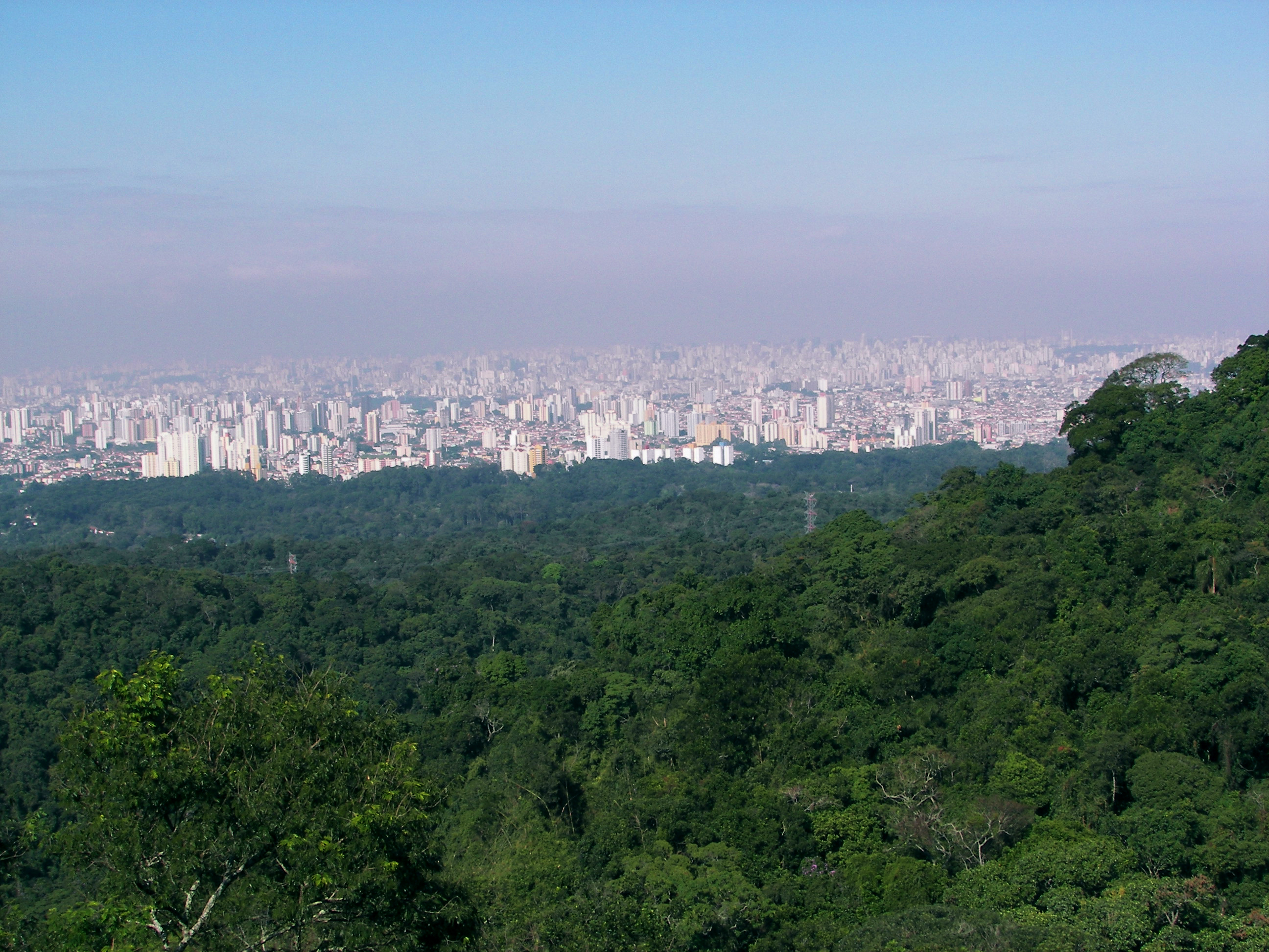 View of São Paulo city from Núcleo Pedra Grande in Cantareira State Park